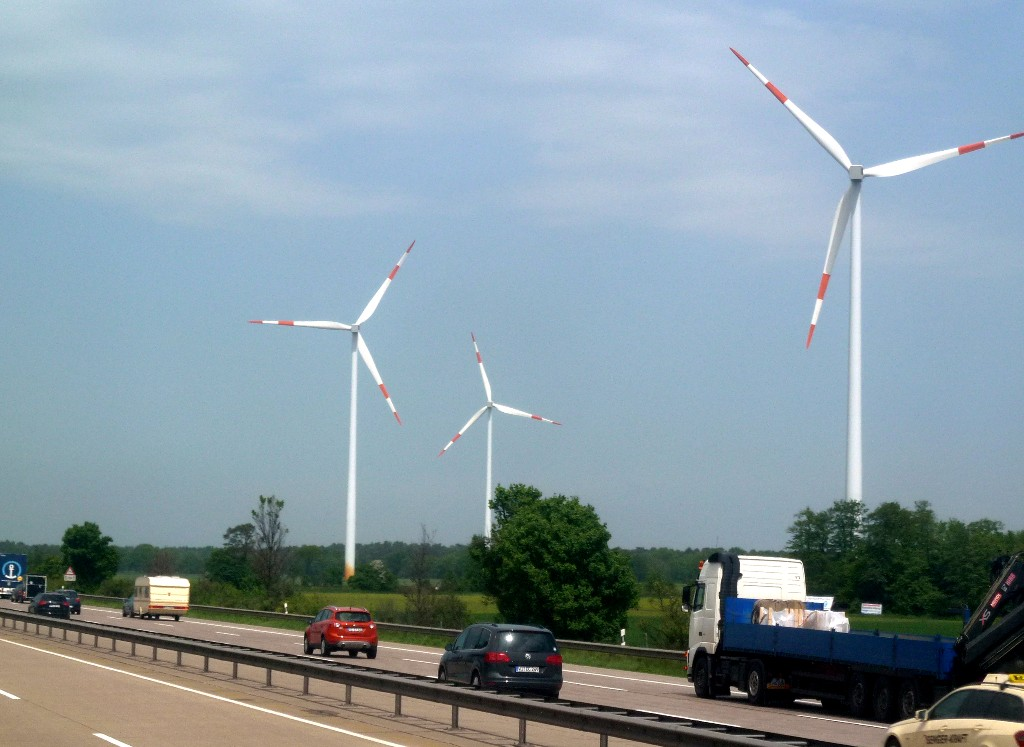 Buchholz wind farm of EnBW on the Bundesautobahn 7, Lower Saxony, Germany